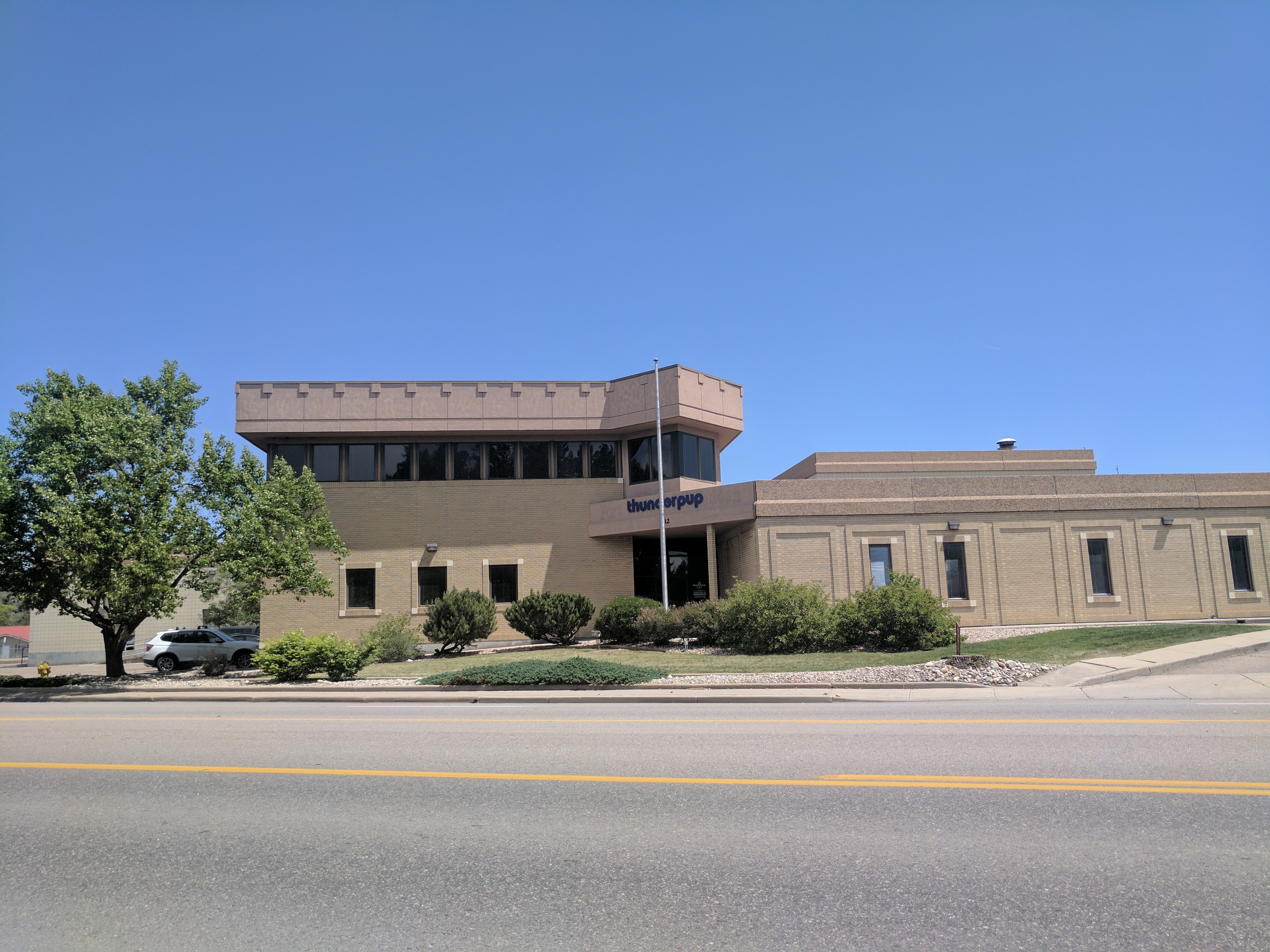 Headquarters of the Fort Collins Coloradoan newspaper until 2005